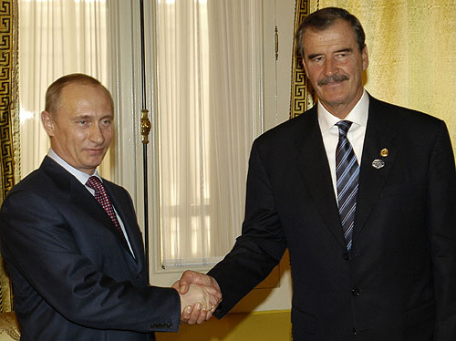 SANTIAGO, CHILI. With Mexican President Vicente Fox.